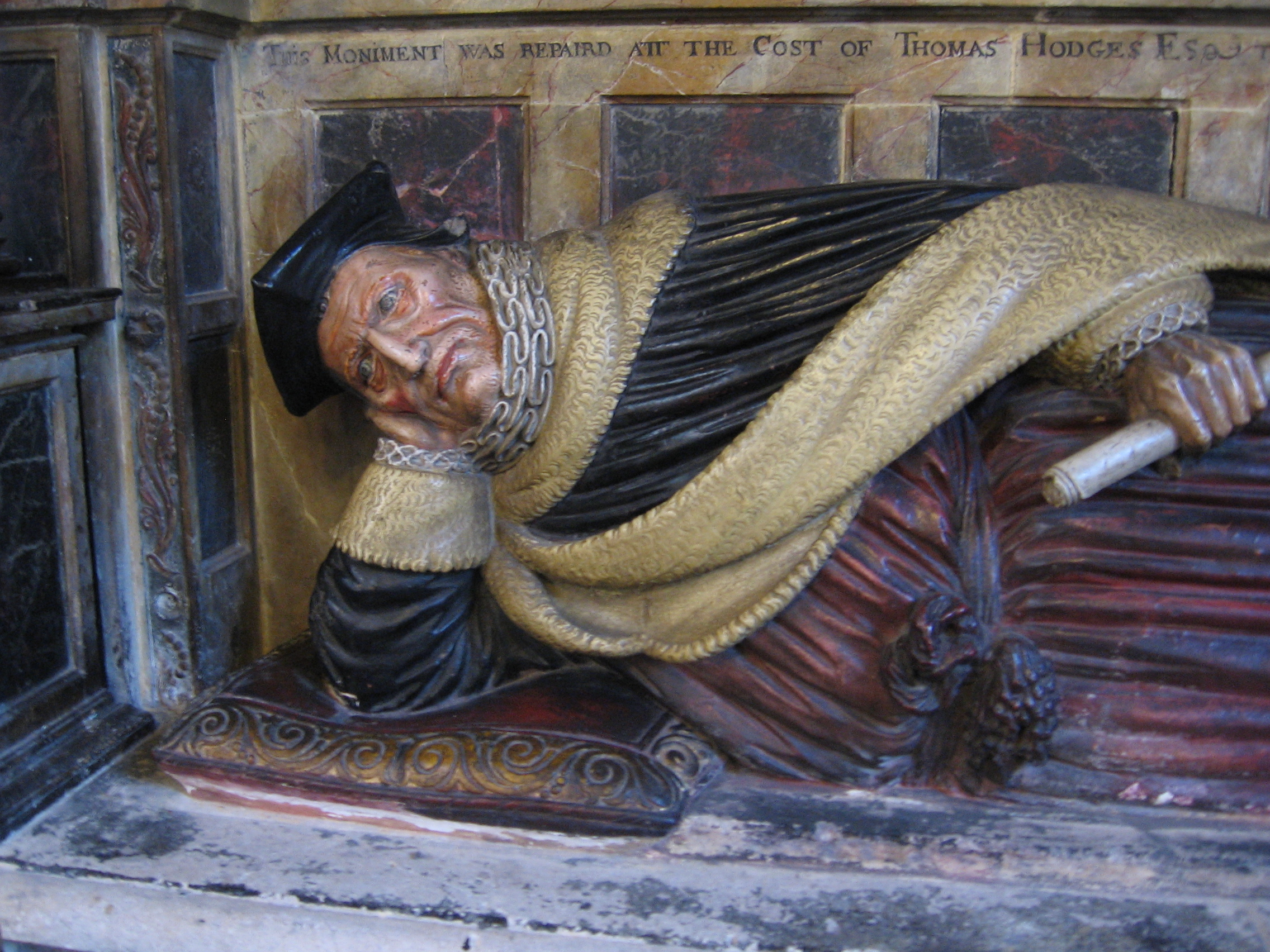 Tomb effigy of George Snygge, died 11 November 1617, St Stephen's Church, Bristol